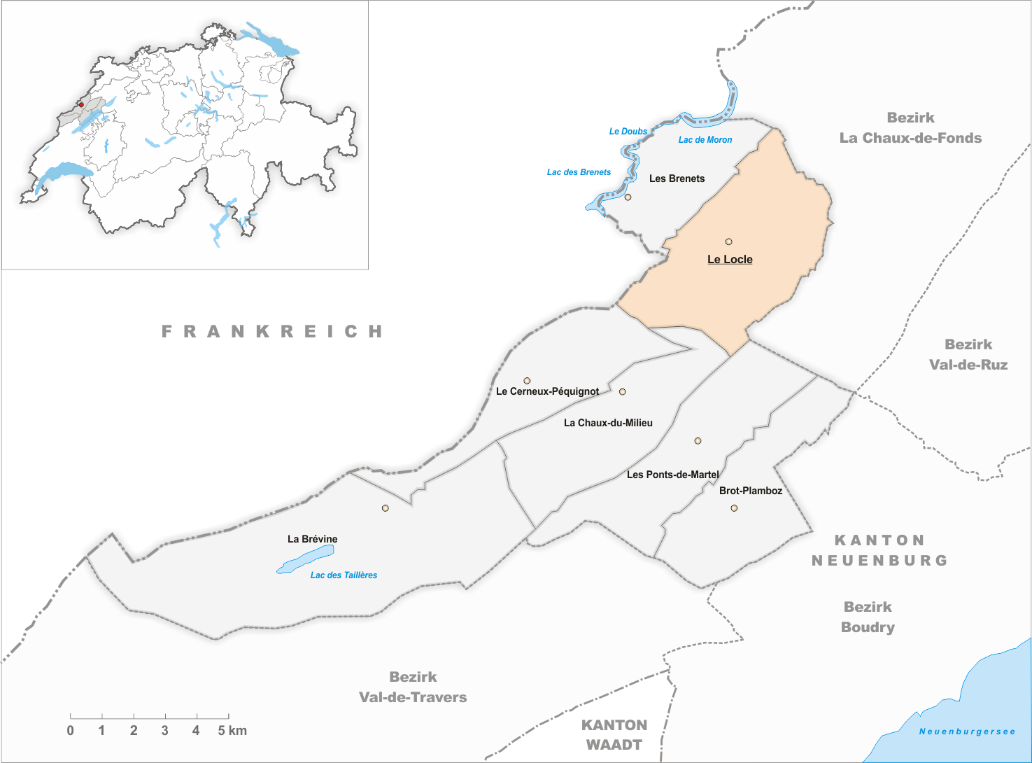 Municipality Le Locle